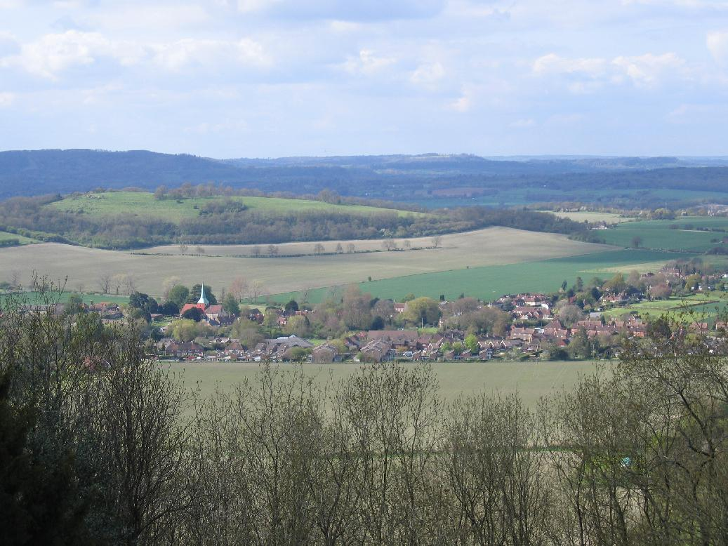 South Harting, West Sussex, looking north from Harting Down, Monday May 1, 2006. The hill immediately behind South Harting is Torberry Hill, an Iron Age hillfort.